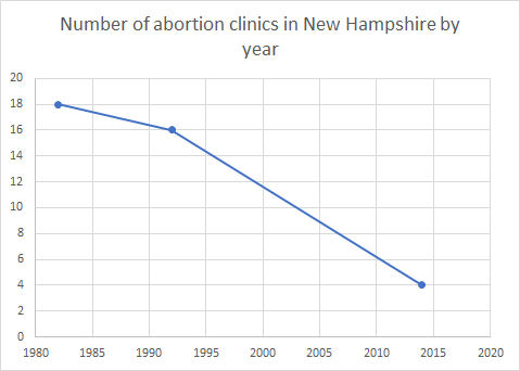 Number of abortion clinics in New Hampshire by year. Data is from articles linked at